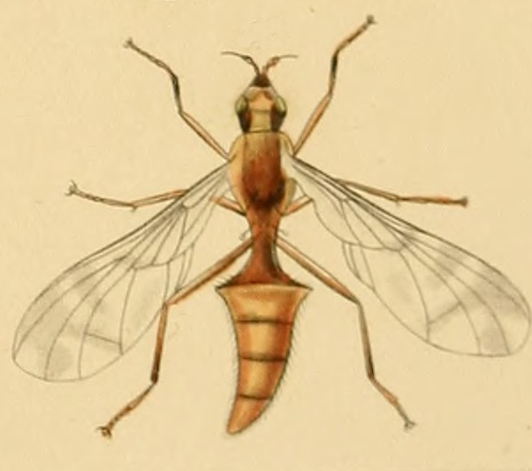 Adapsilia coarctata Waga, 1842 (Pyrgotidae) female - original drawing of original description by Antoni Stanislaw Waga